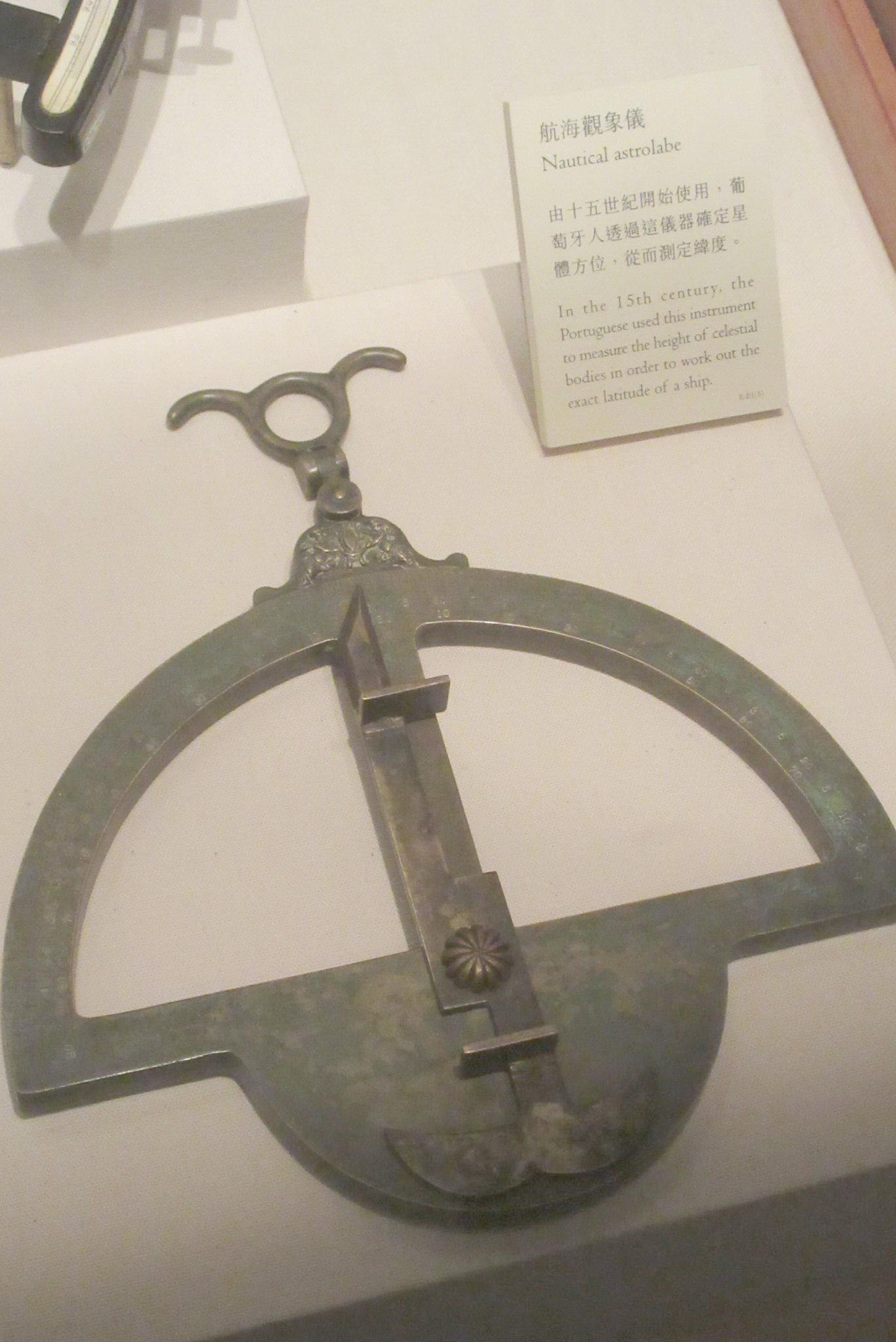 HKMH 香港歷史博物館 Hong Kong Museum of History exhibit in March 2017